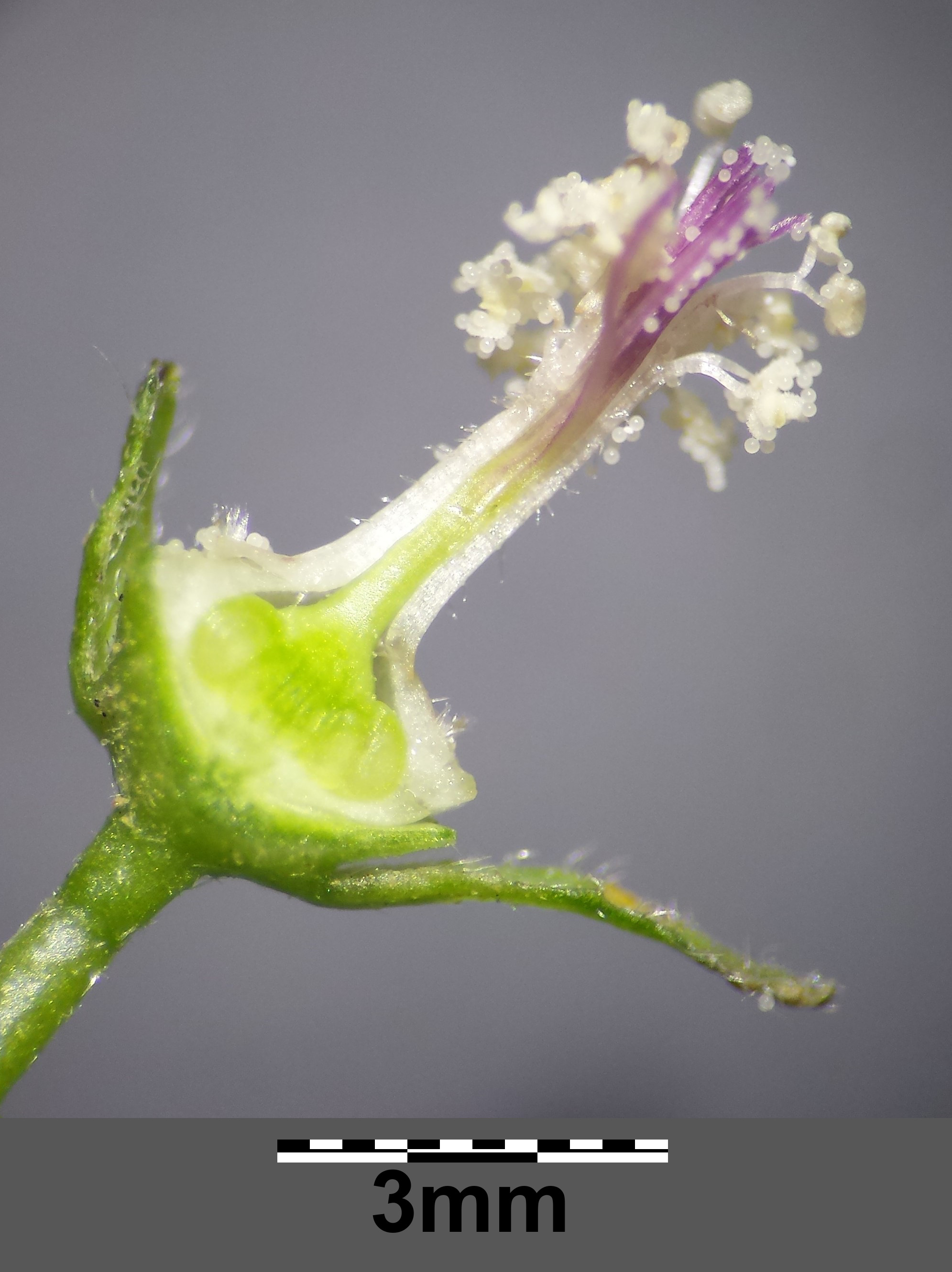 Opened flower Taxonym: Malva neglecta ss Fischer et al. EfÖLS 2008 ISBN 978-3-85474-187-9 Location: between Michelberg and Steinberg near Niederhollabrunn, district Korneuburg, Lower Austria - ca. 300 m a.s.l. Habitat: wayside